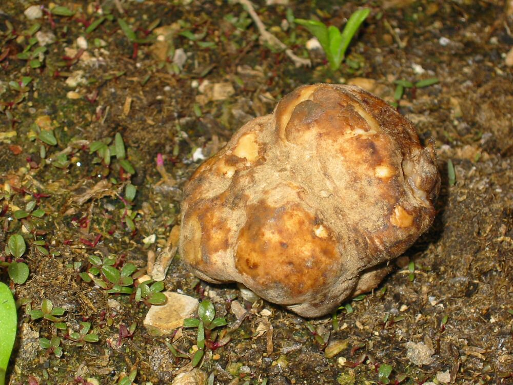 Desert truffle (Terfezia spp.) of Avanos, Turkey